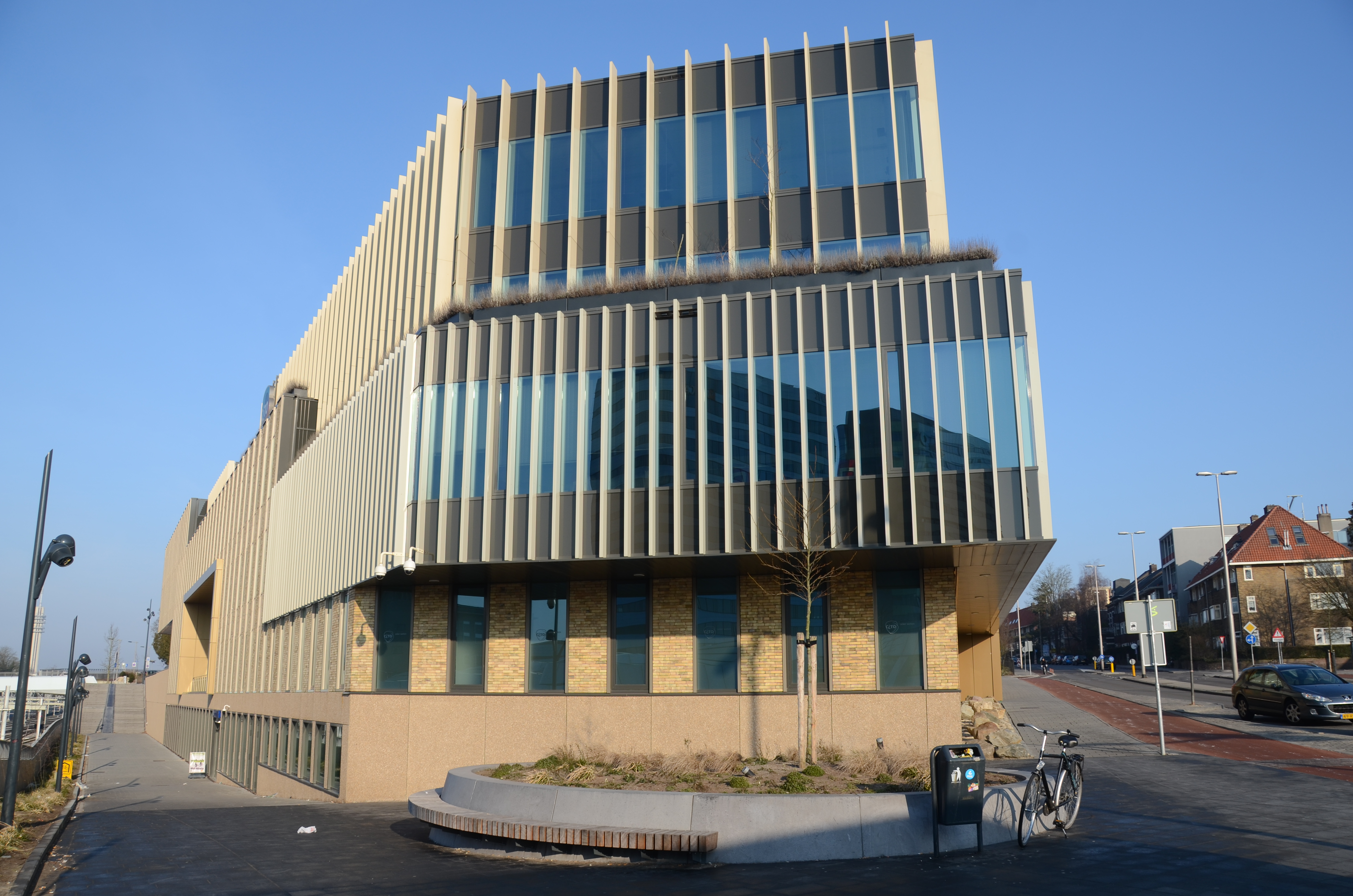 The 2 years old CITO (school testing) building next to the Central Station of Arnhem